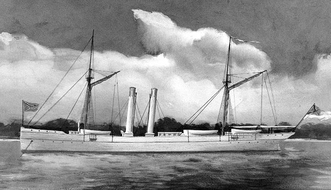 CSS Chickamauga, from the U.S. Naval Historical Center.